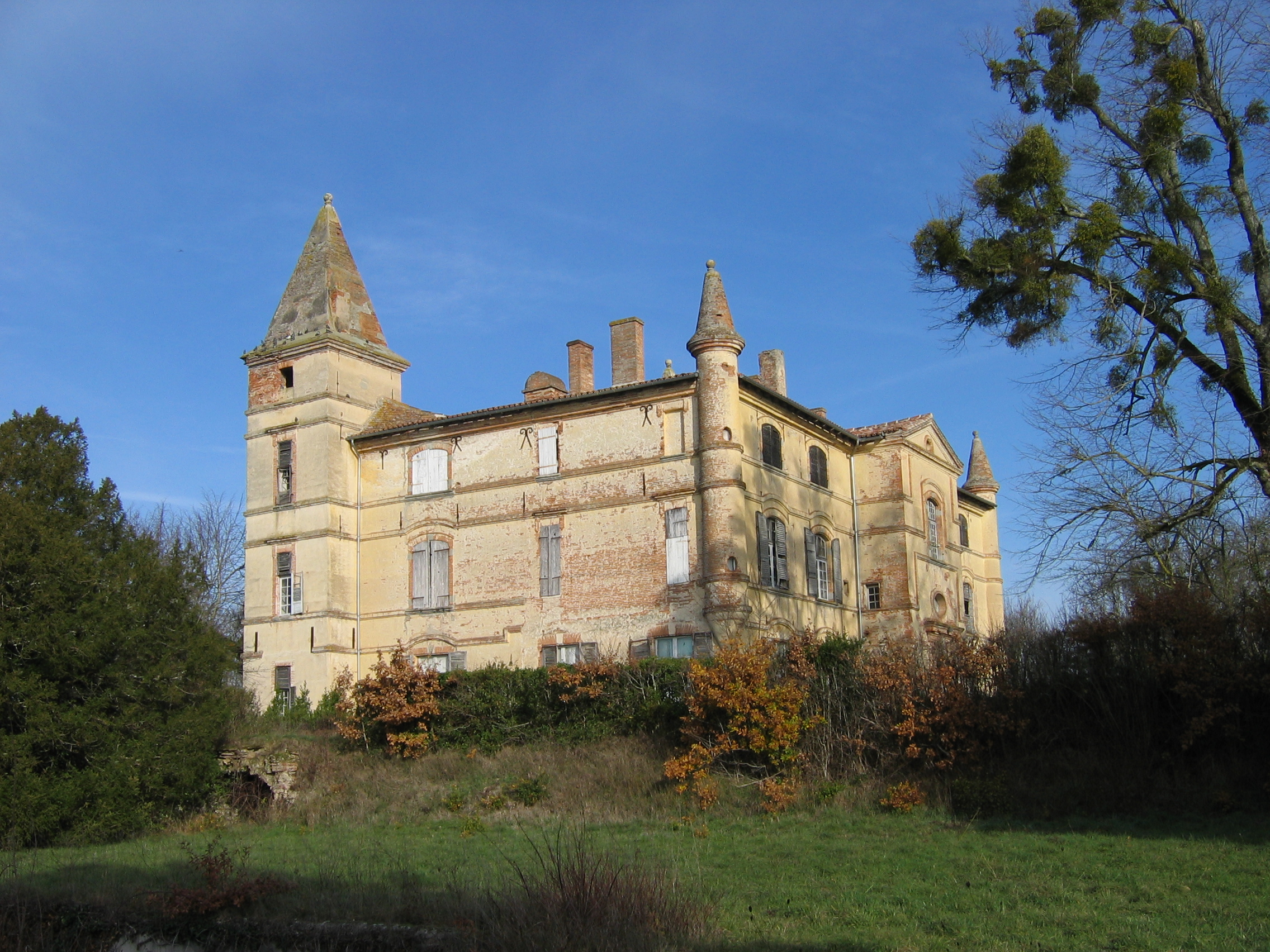 Bonrepos castle, Bonrepos-Riquet village, Haute-Garonne, France